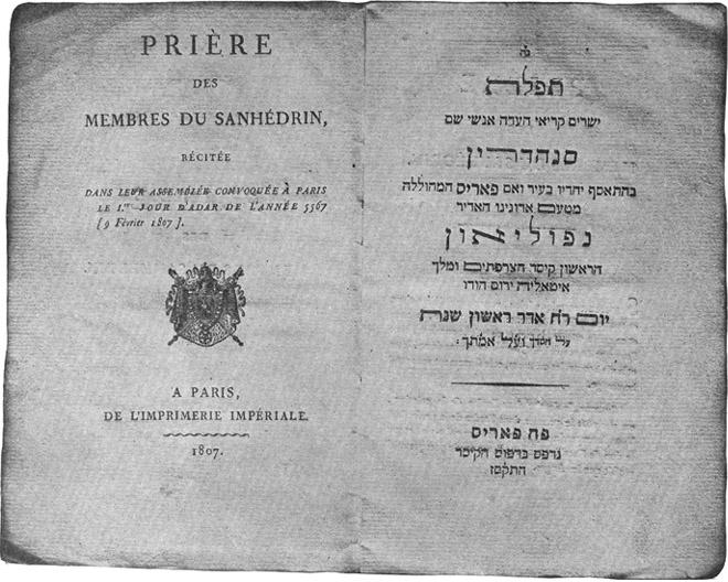 Cover leaf of a siddur printed for use at the "Grand Sanhedrin" convened by Emperor Napoleon I of France.